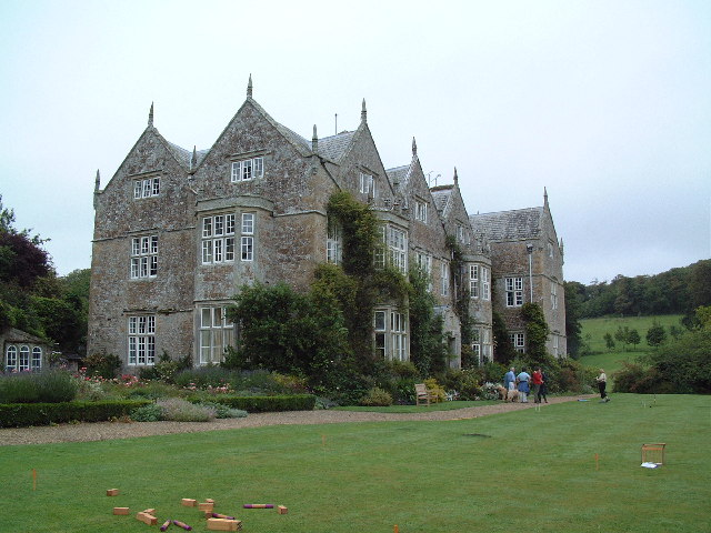 Northcourt. Nestling in a very favourable position sheltered by the downs, this Jacobean manor house has been lovingly preserved by the present owners who have also created an extensive and very attractive garden.